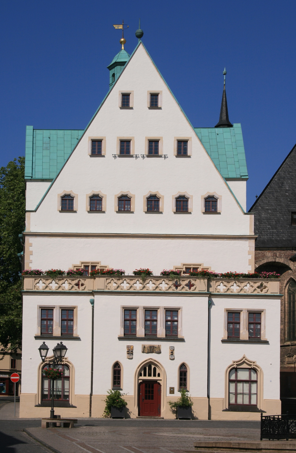 Town Hall - Eisleben - Front